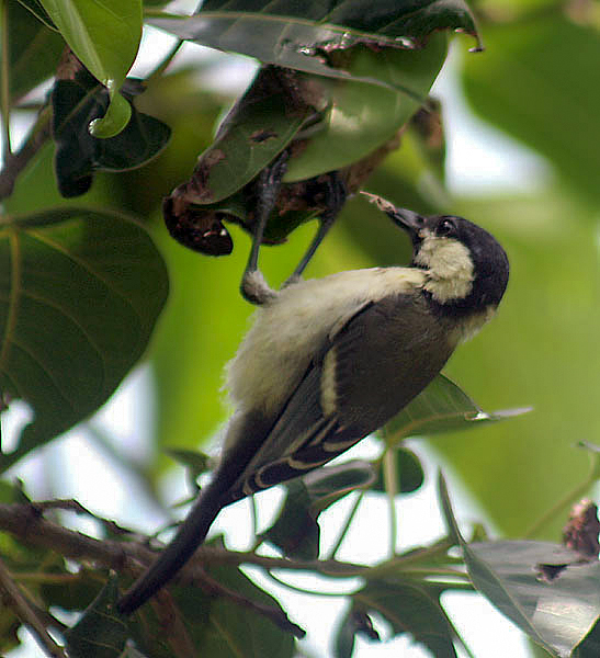 Cinereous Tit Parus cinereus in Kullu District of Himachal Pradesh, India.